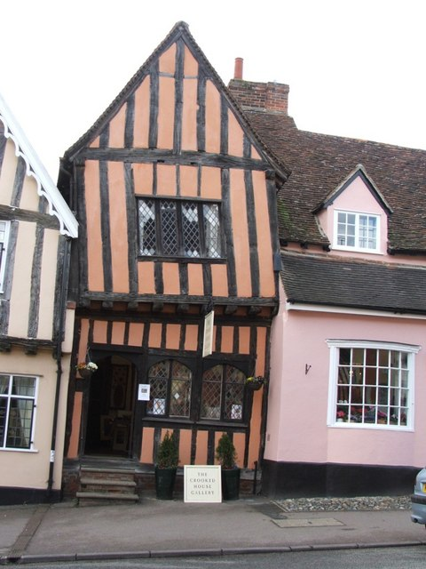 Lavenham - The Crooked House. Exceedingly crooked - amazed it is still standing